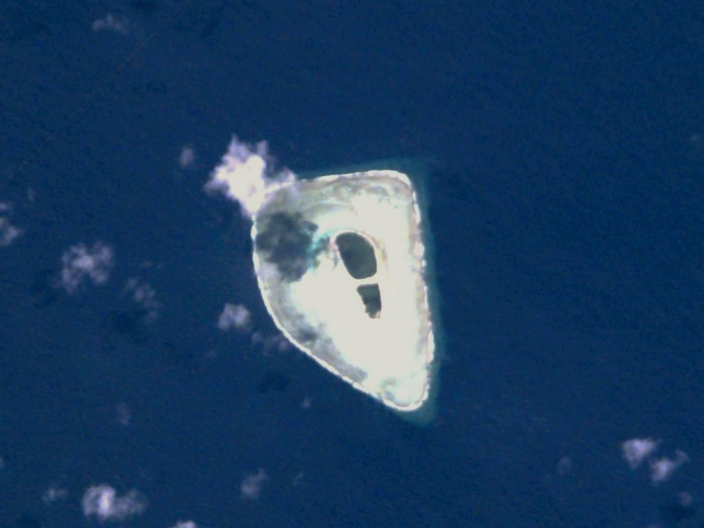 NASA astronaut image of (East) Fayu, Chuuk State, Federated States of Micronesia